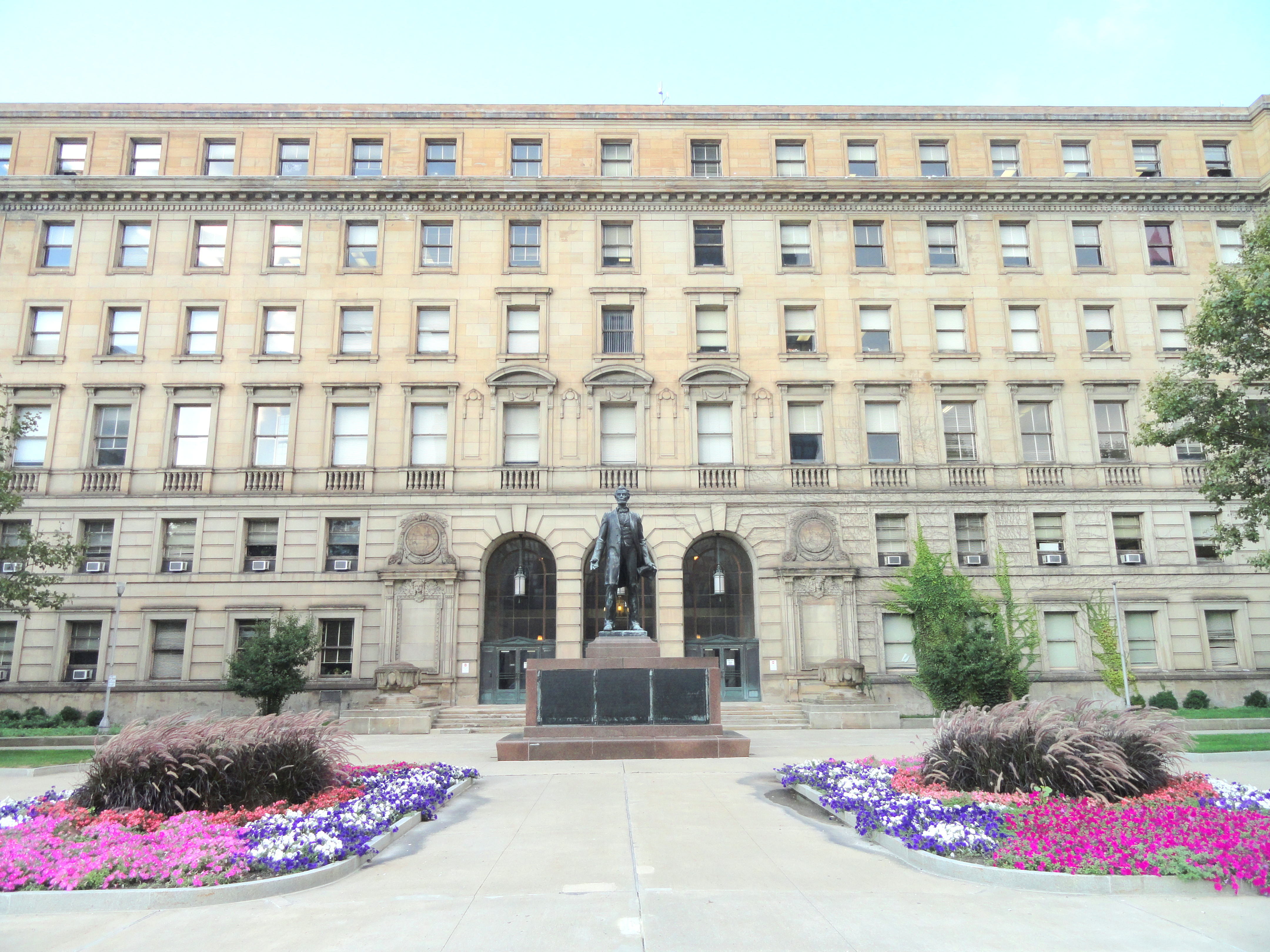 Abraham Lincoln by sculptor Max Kalish (1 Mar. 1891-18 Mar. 1945), in front of the Cleveland Municipal School District Headquarters, Cleveland, Ohio, USA. According to the SIRIS record, the fountain was commissioned in 1927 and dedicated in 1932. There is no mention of a copyright notice in the description and thus it is assumed to be public domain in the United States by virtue of being published without any such notice.